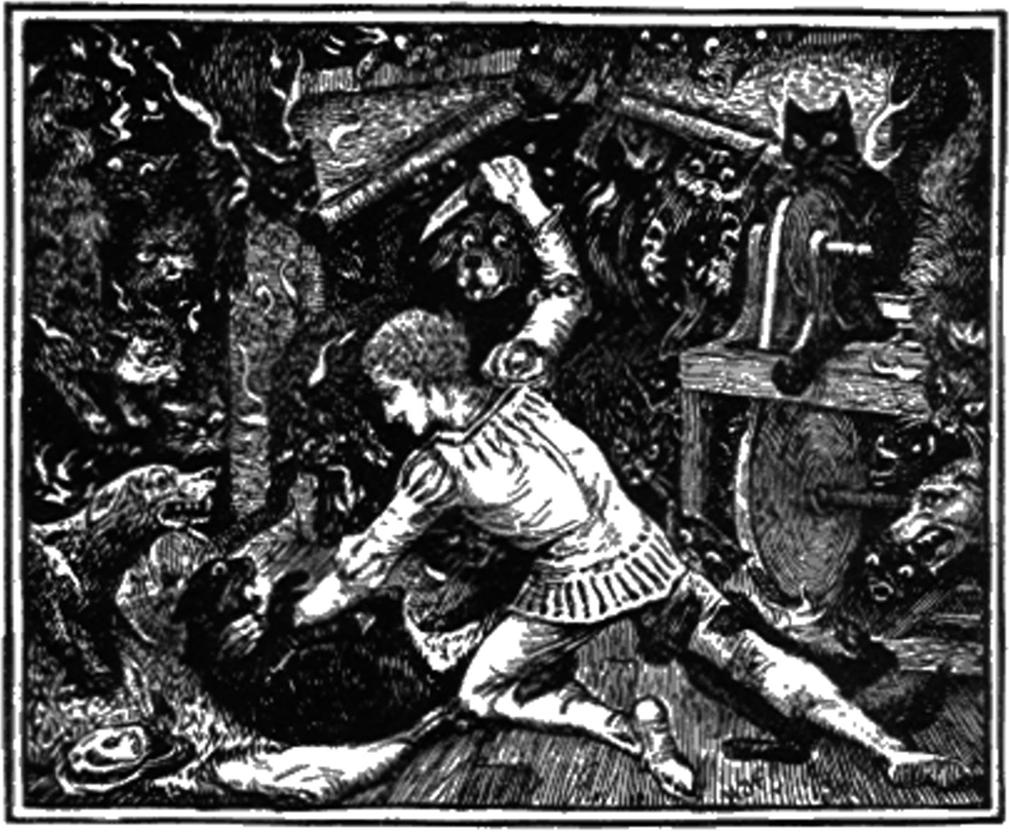 Illustration by H.J. Ford from the 1889 edition of 'The Blue Fairy Book' edited by Andrew Lang